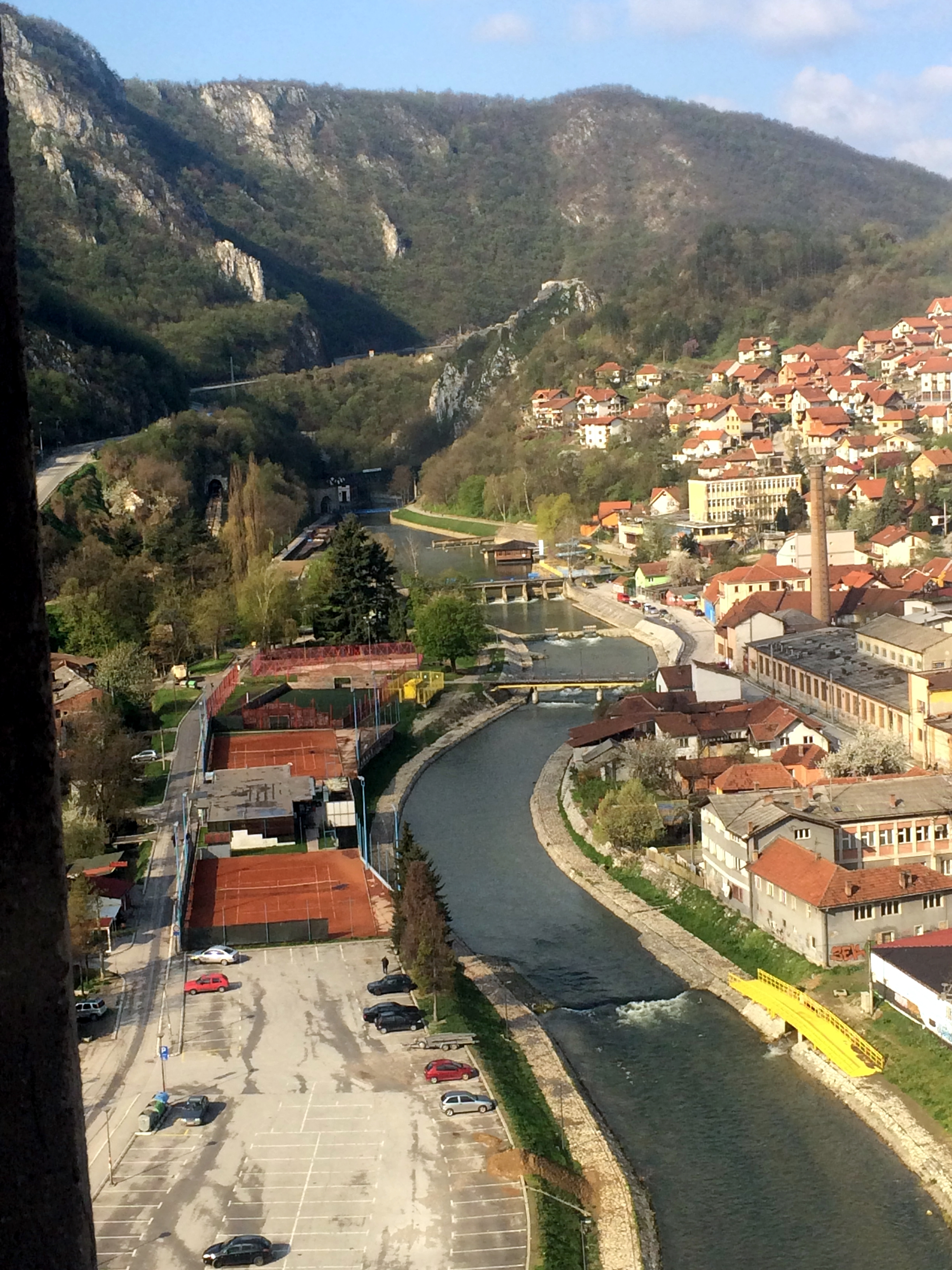 Image of Užice city center and the Detinja river, as seen from atop the Hotel Zlatibor. Western Serbia.